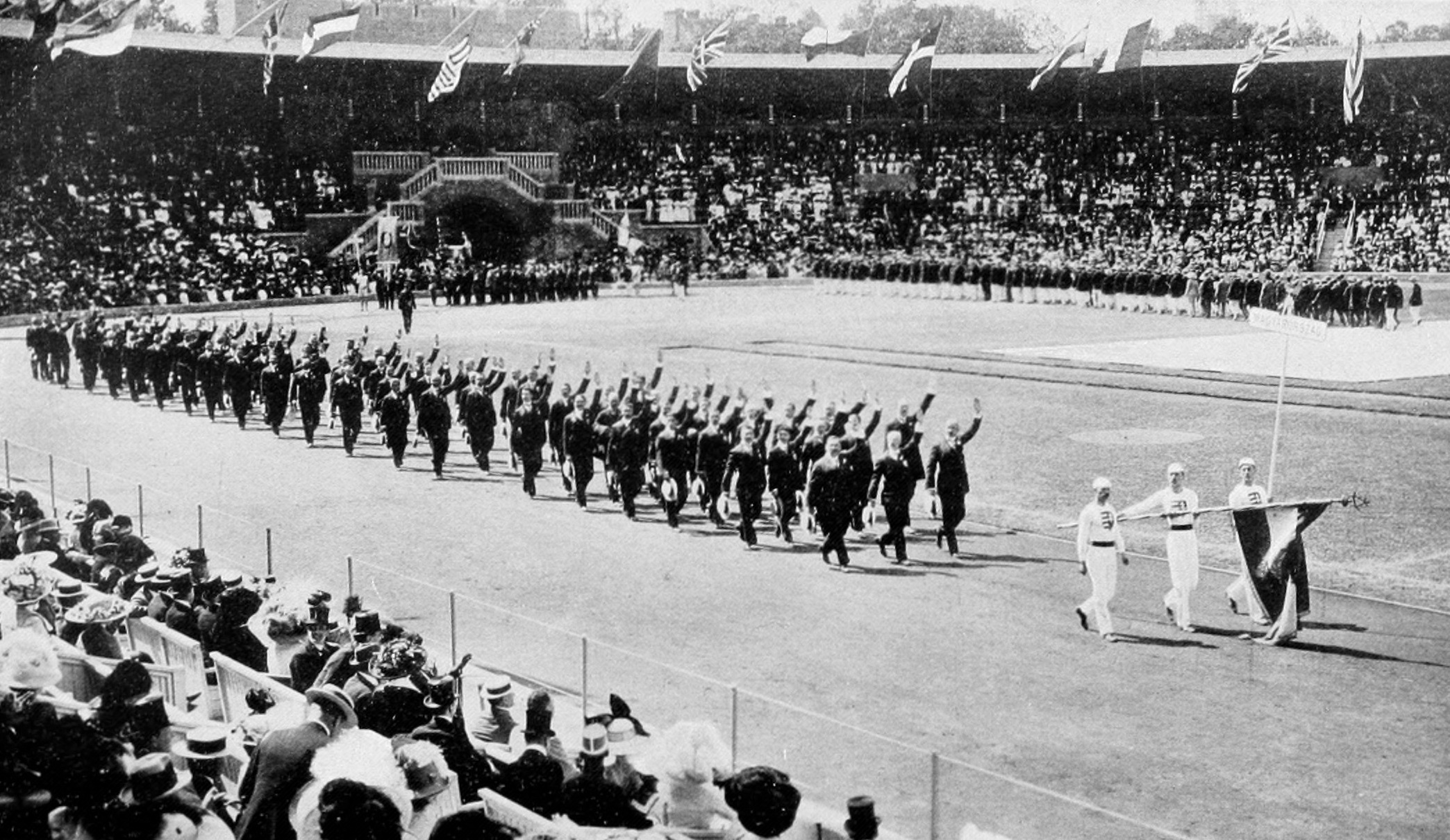 The team of Hungary at the opening ceremony of the 1912 Summer Olympics